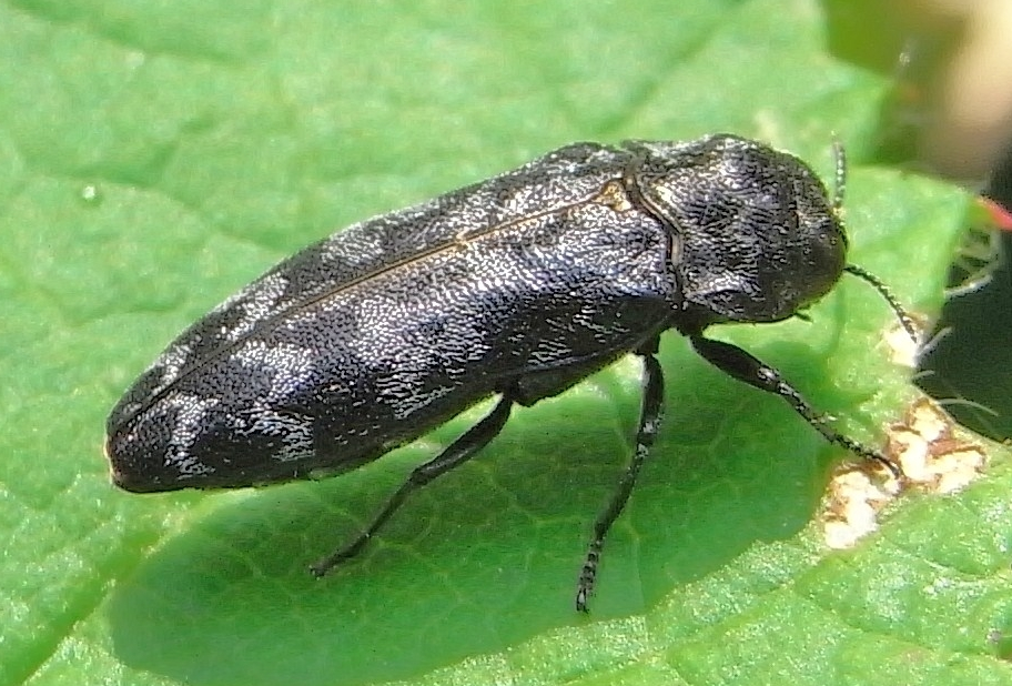 Coraebus rubi from Hungary, in börzsöny-mountains at 2010-07-09 Ricoh R8